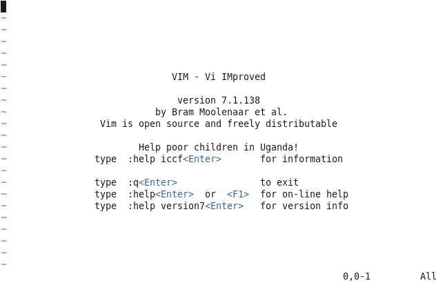 Screenshot of vim splash, analogous to Vi-splash.png